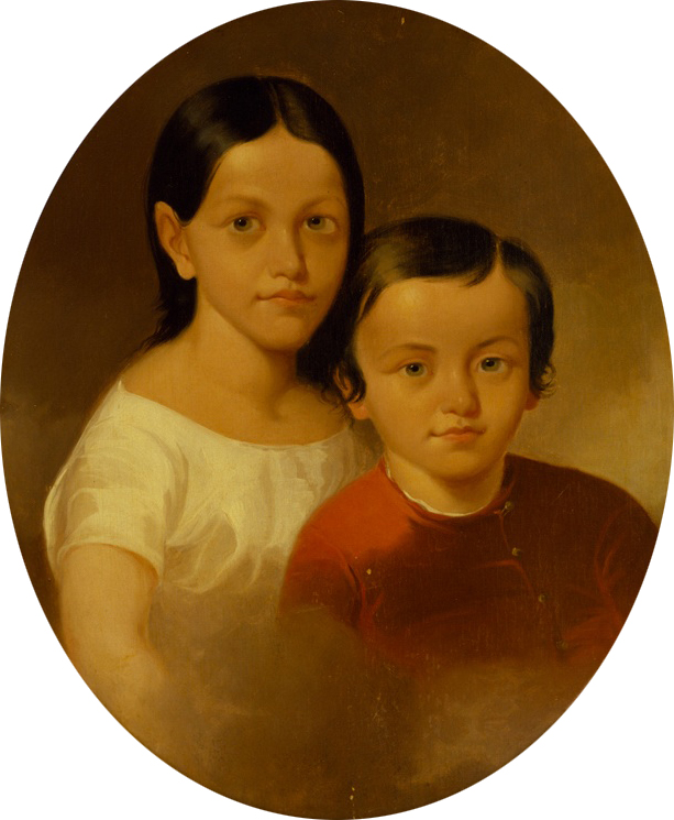 Portrait of Mary Ann and Henry Hoolulu Pitman from the Peabody Essex Museum. Database catalog entry: Portrait of Mary Ann and Henry Hoolulu, 19th century. Oil paint, canvas. Image 23 1/4 X 9 inches (59.055 x 48.26 cm). Peabody Essex Museum, Gift of Mr. Charles D. Childs, 1966., M12774